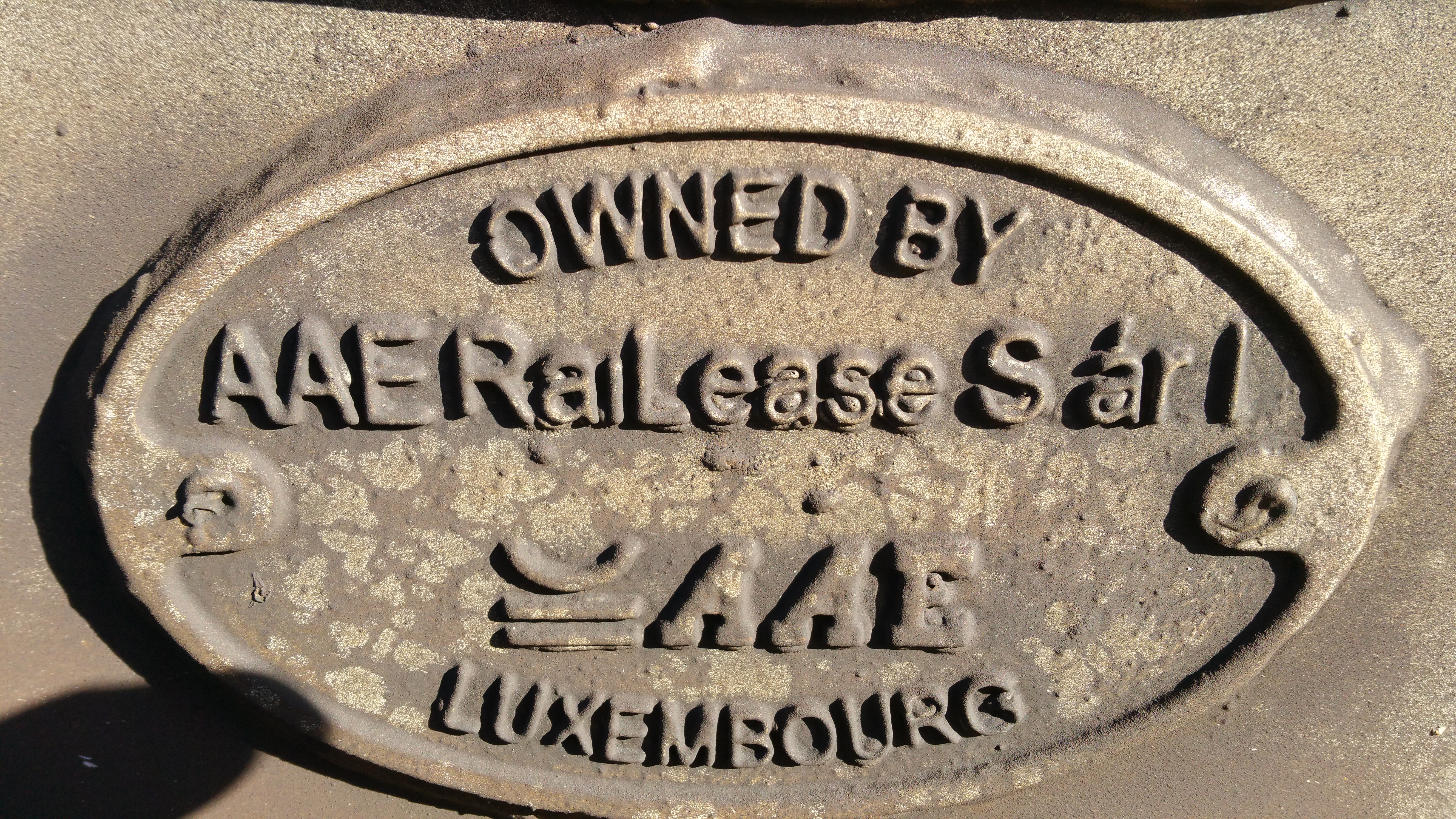 Plate AAE Raillease